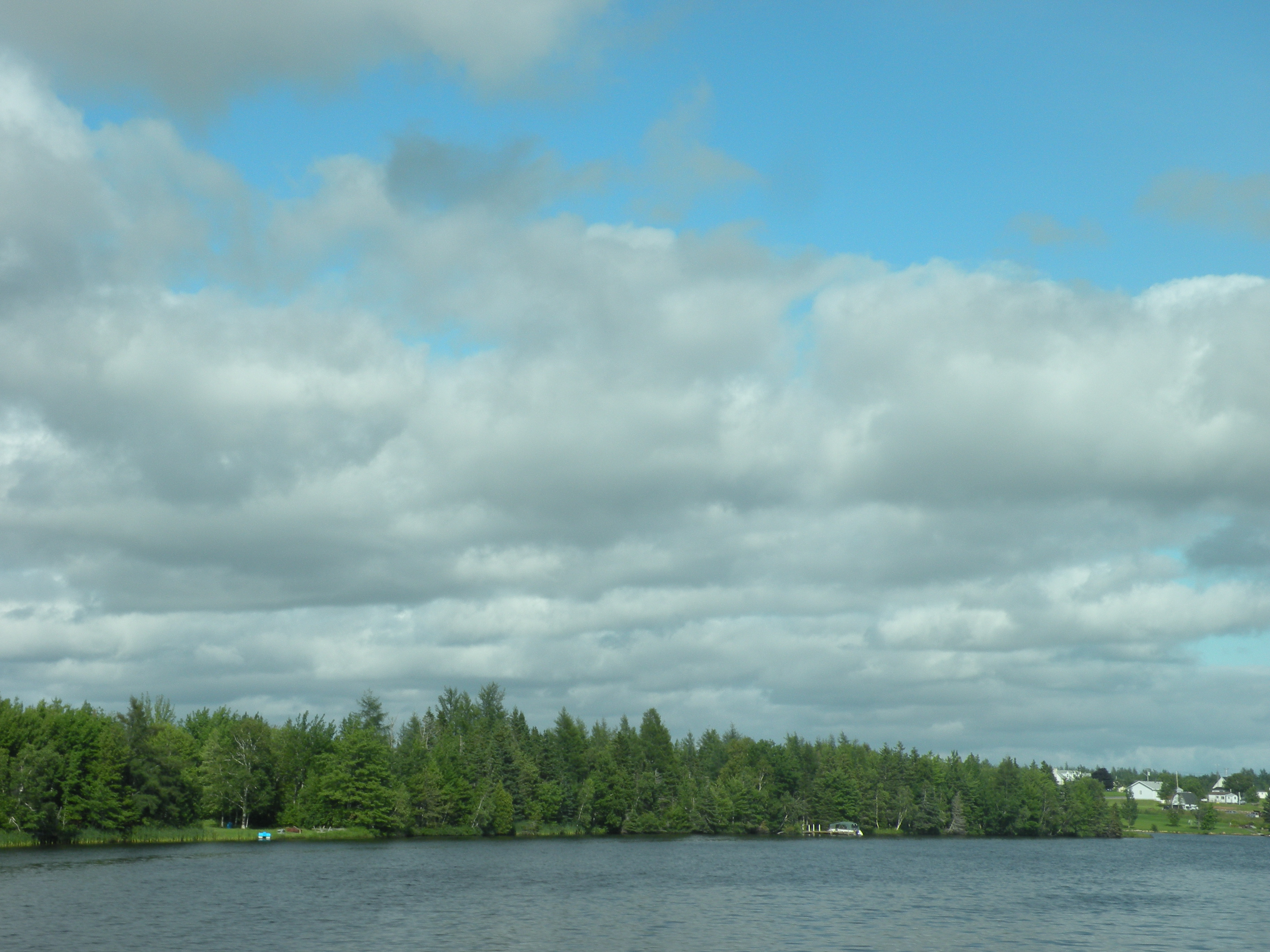 The Waugh River, in north-east New Brunswick.